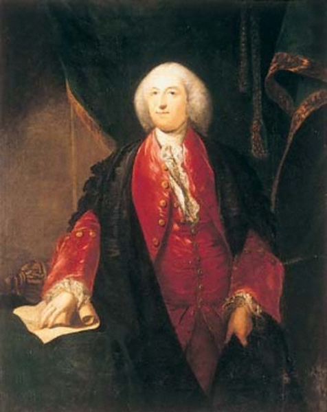 John Ponsonby (1713-1789). Born in Kilkenny.